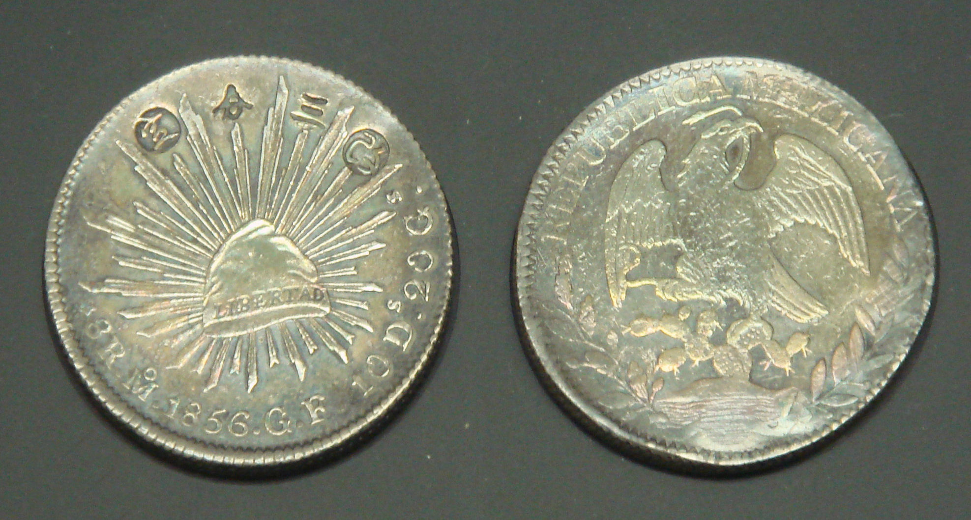 Aratame sanbu sadame silver coin 1859, Japan. Counterstruck Mexican silver coin.